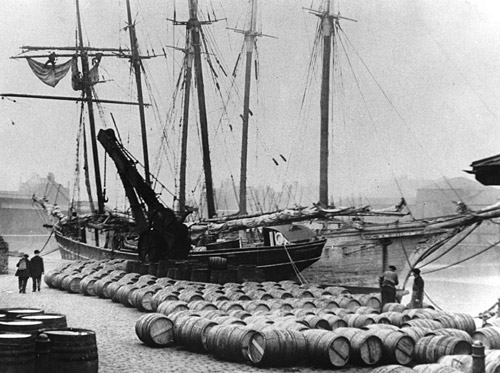 London Docks - unloading port wine from Oporto, circa 1909